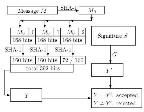 scheme of verification signature in SFLASH